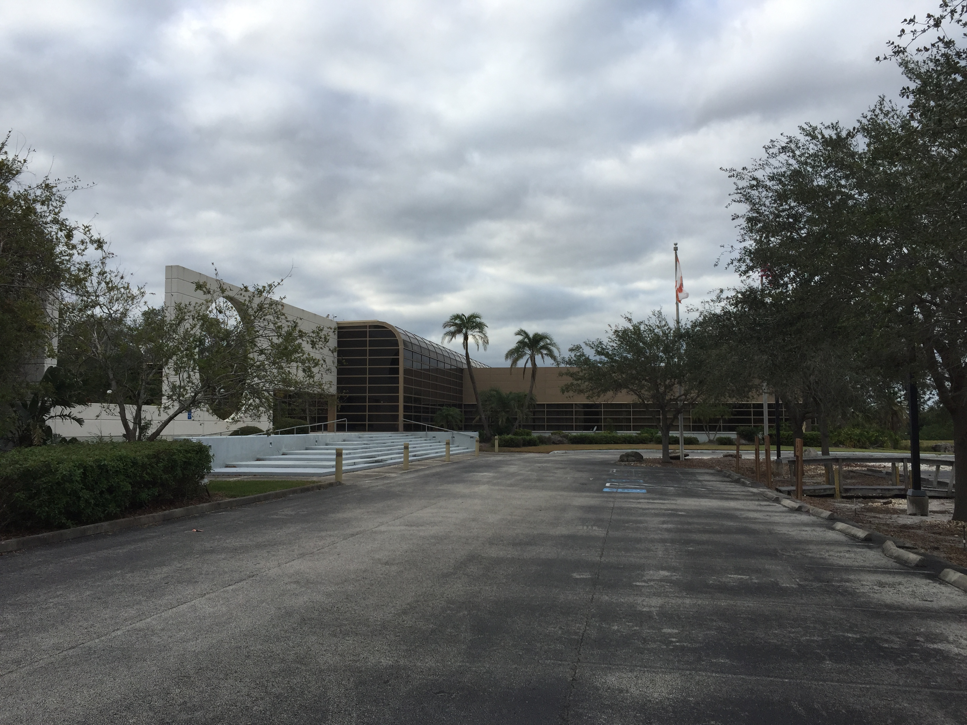 Gannett Building, 3101 Gannett Plaza Avenue, Rockledge, Florida at the intersection of U.S. Route 1 and Americana Circle.